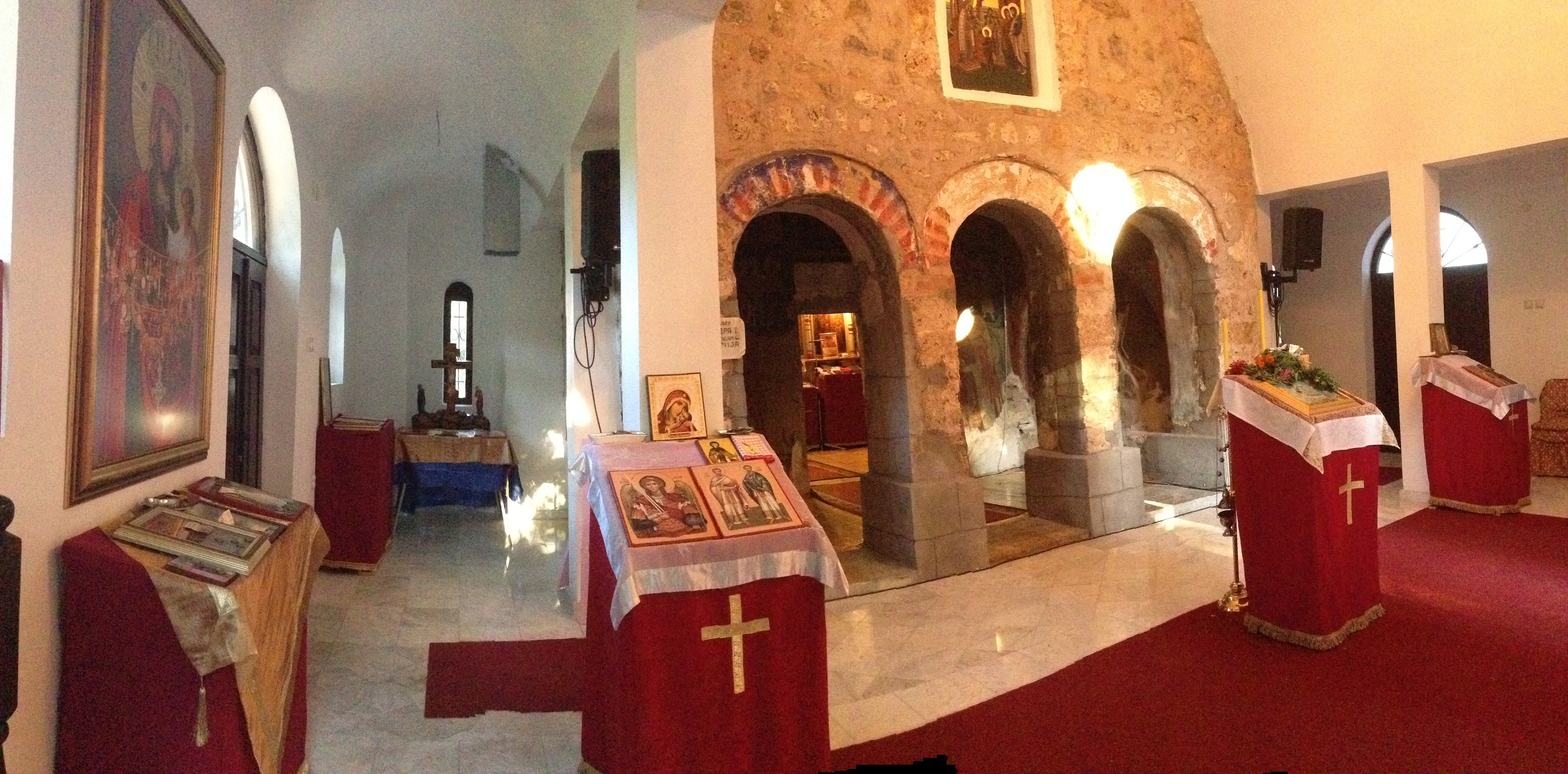 Architecture, The Monastery of the Theotokos in the Sićevo Gorge, Serbia